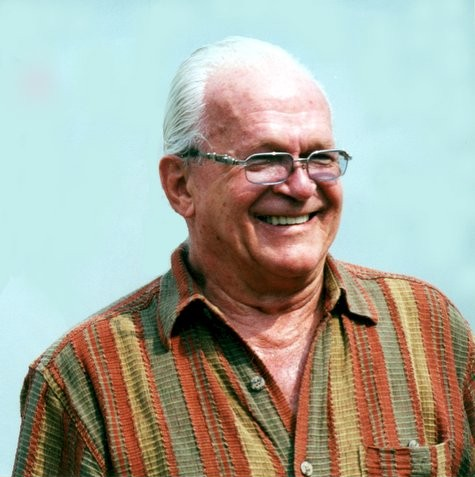 Bob Shane, born Robert Castle Schoen 1 February 1934, photo taken by me (Sensei48) August, 2004.